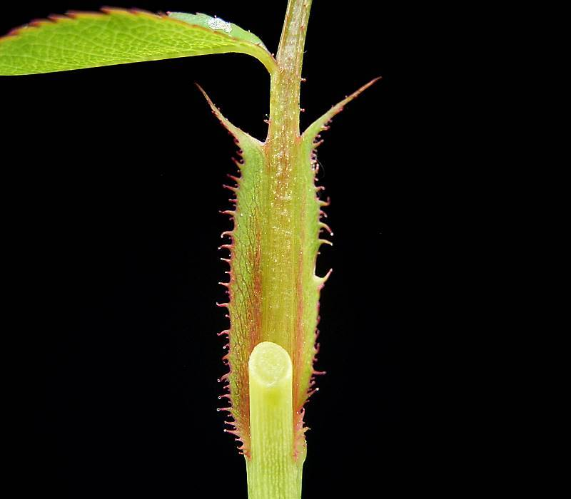 Rosa stipule (shoot removed)